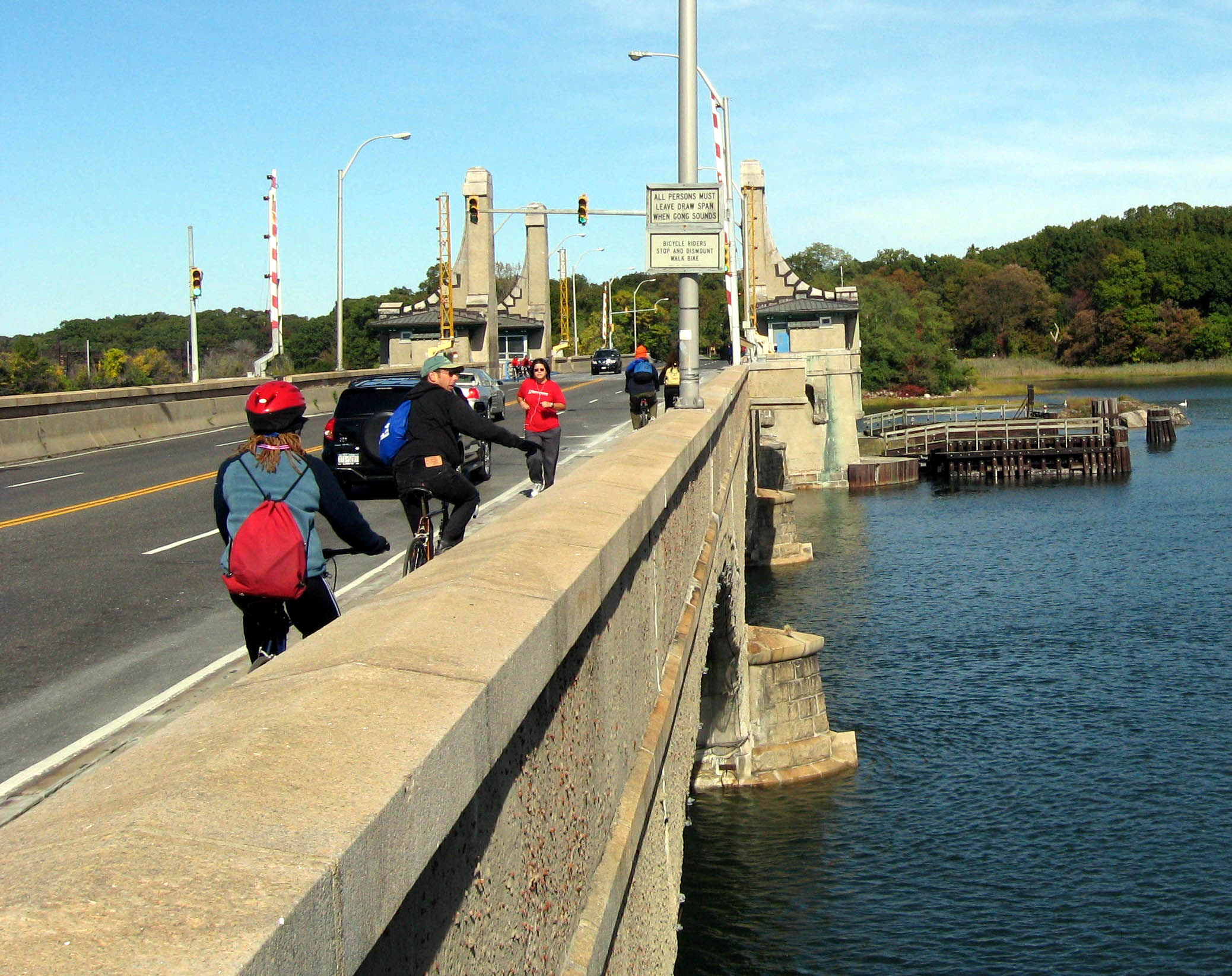 Looking northeast along Pelham Bridge across the Hutchinson River on a sunny midday during Tour de Bronx